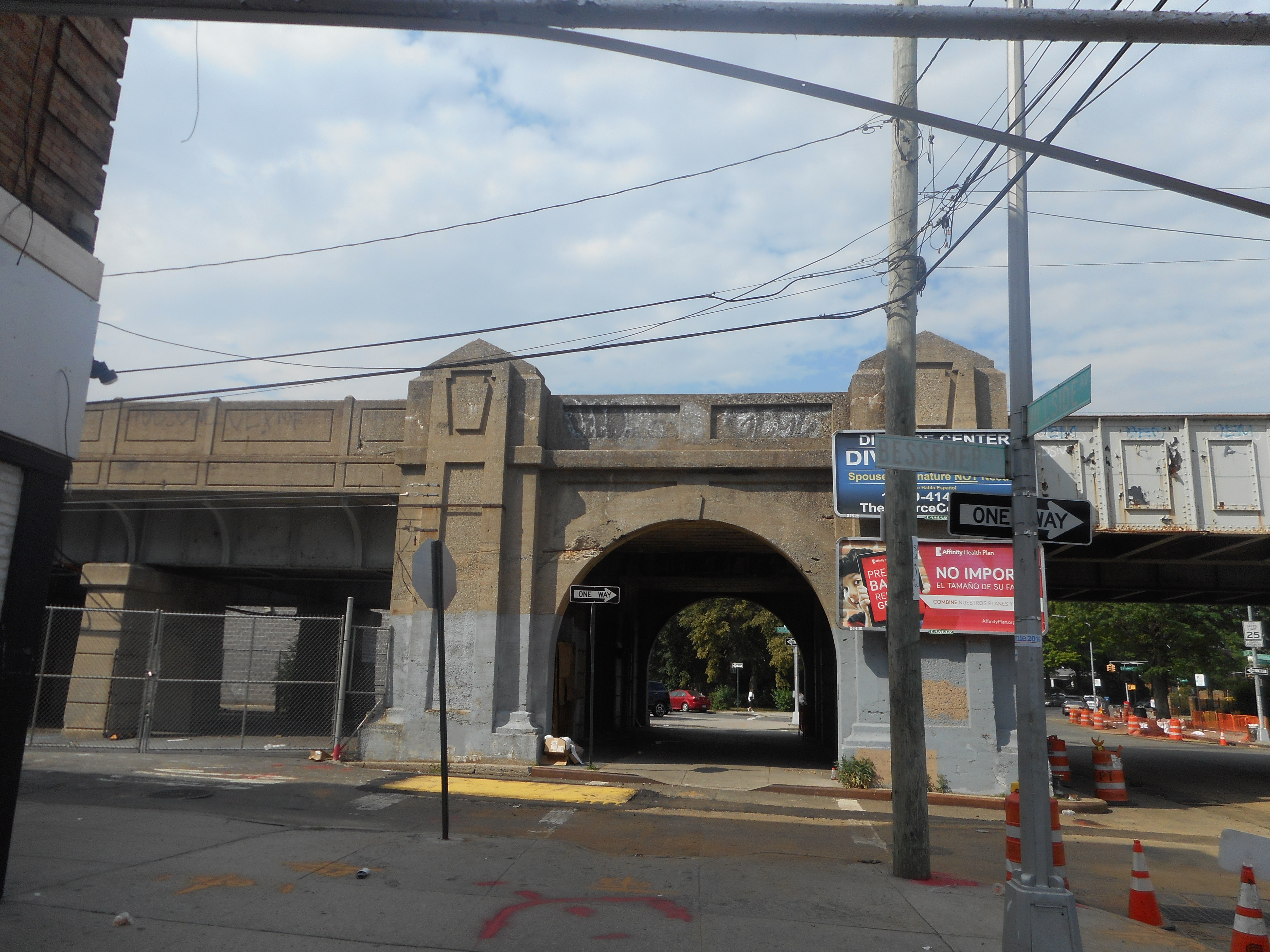 The former Richmond Hill LIRR station over Hillside Avenue in the Richmond Hill section of Queens, New York City. More details to come later.